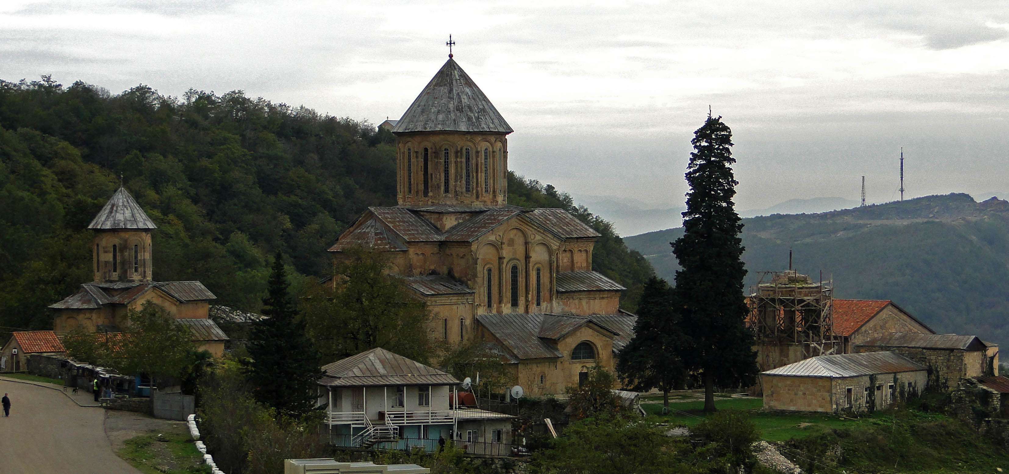 Motsameta, Georgia